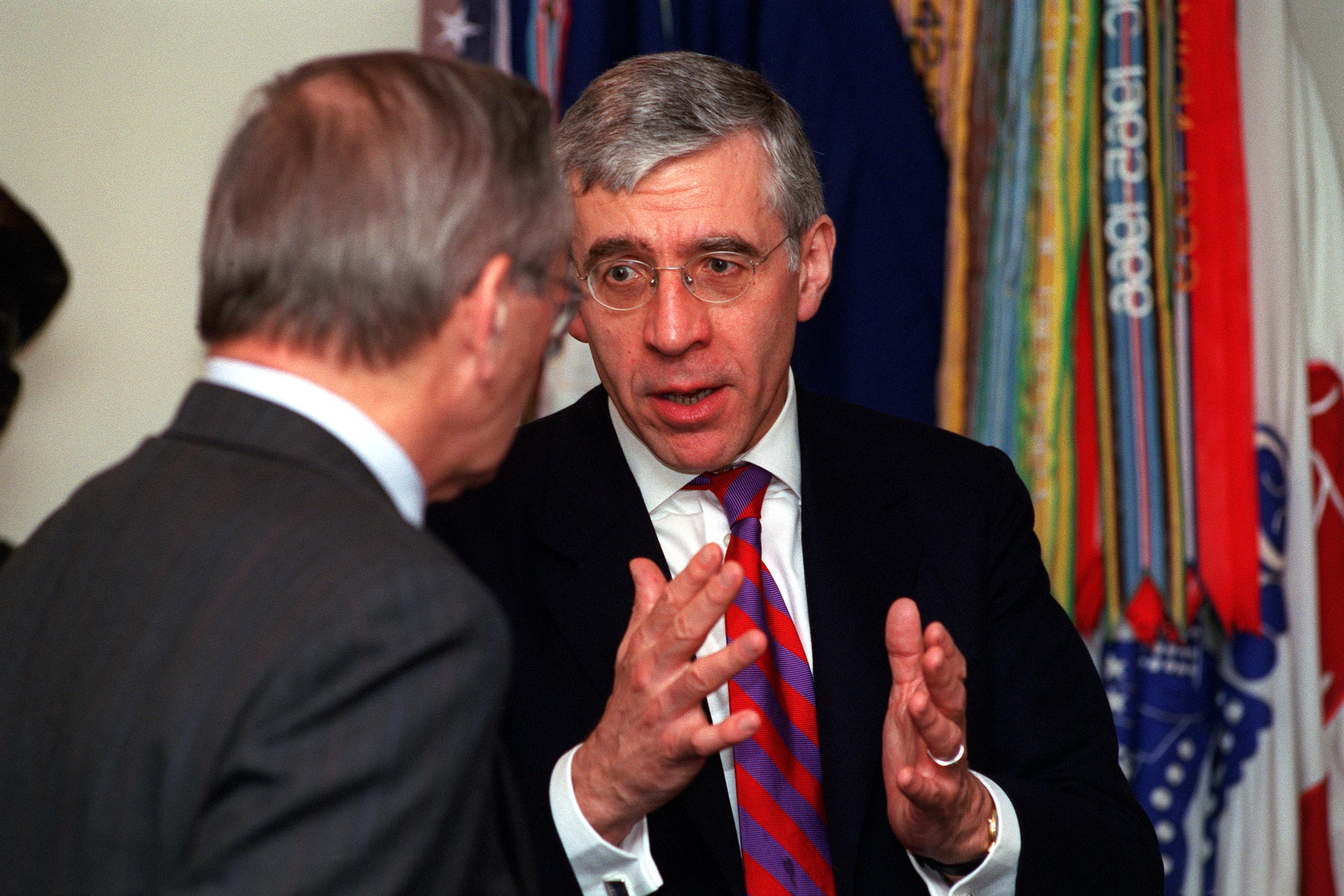 Secretary of State for Foreign and Commonwealth Affairs Jack Straw (right), of the United Kingdom, discusses the war on terrorism with Secretary of Defense Donald H. Rumsfeld (left) at the Pentagon on Oct. 24, 2001.